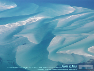 Artwork by Paul Moss. Photograph of an area of shifting sands above and below clear water in Moreton Bay, near Brisbane Australia. The photo was taken through the window of a first class seat in a Qantas Jumbo 747, en route from Sydney to Brisbane.